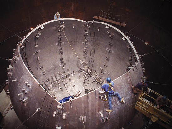 This image shows the National Ignition Facility's target chamber under construction. The chamber is made as a number of pieces that are bolted together and then drilled and cut to provide ports.